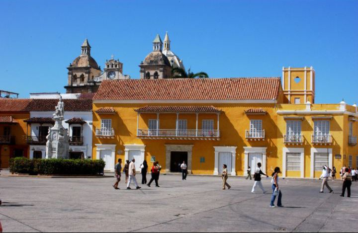 PLAZA DE ADUANA IS THE LARGEST IN THE OLD TOWN AND WAS USED AS A PARADE GROUND. STATUE IN THE CENTER IS THAT OF CHRISTOPHER COLUMBUS